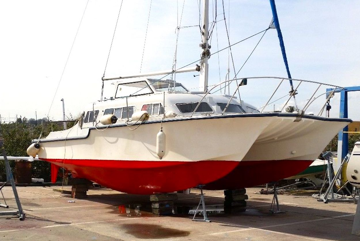 Catalac 9M "Roumeli" ashore at cardiff.